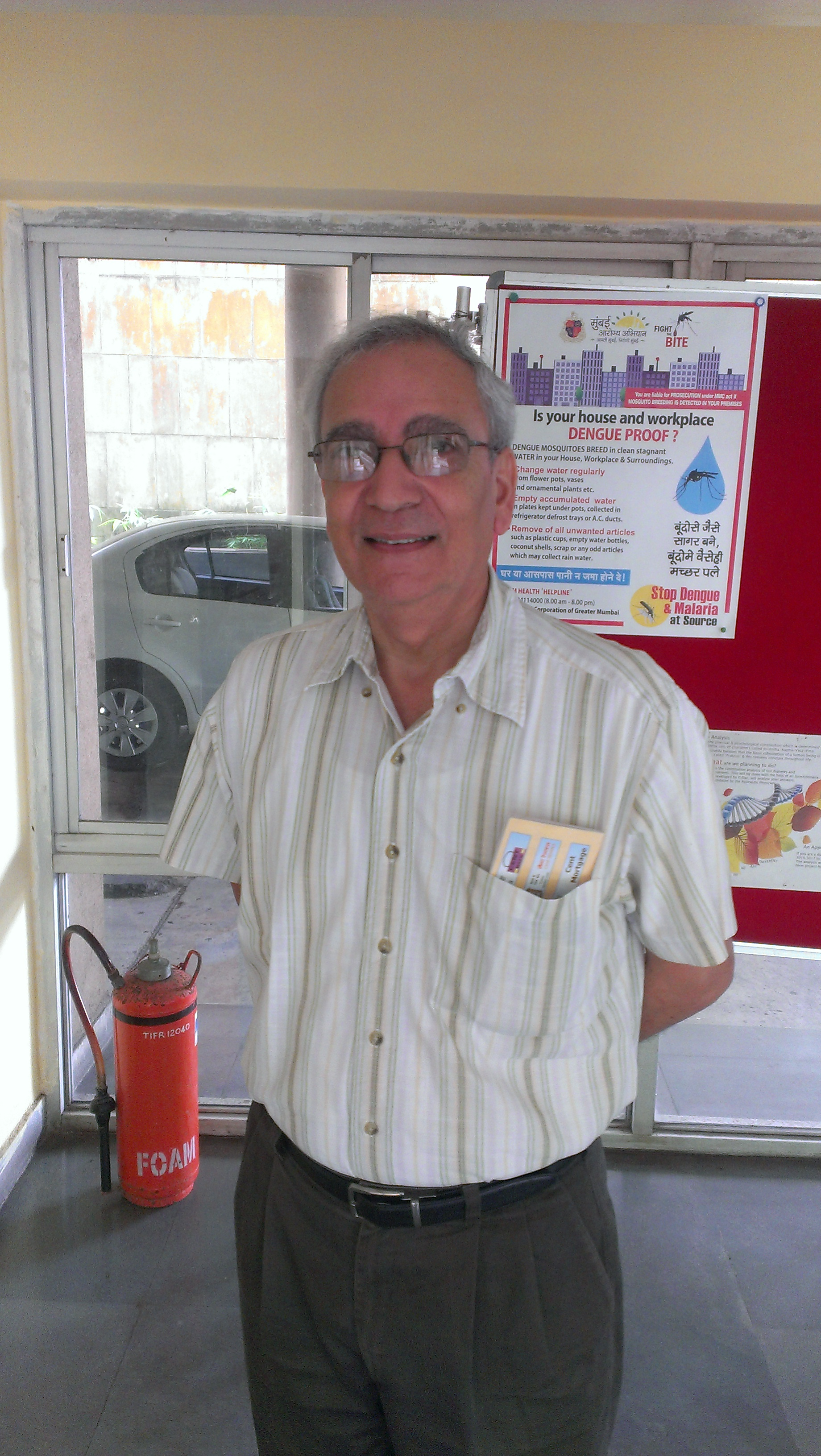 Atul Gurtu at TIFR, he was simply talking and I asked to take this picture, he agreed and I took it.